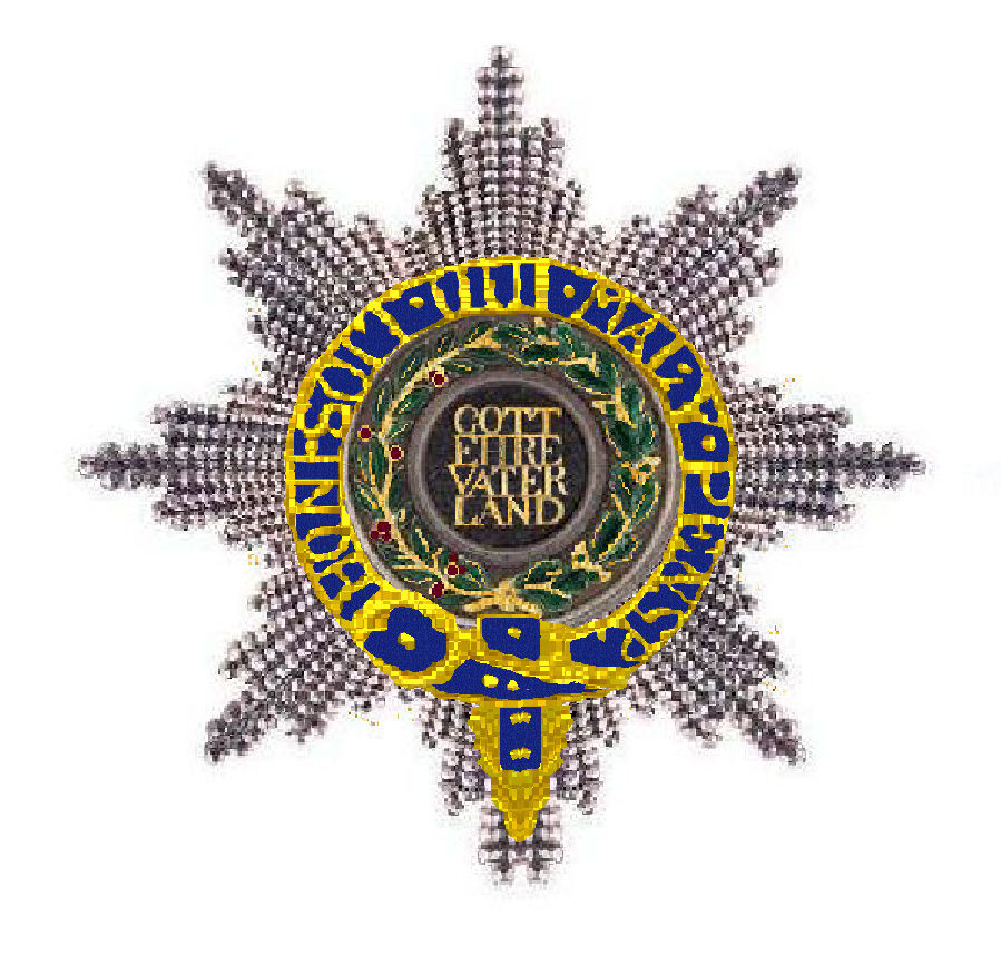 Hessian star of the Ludwigsorden with garter